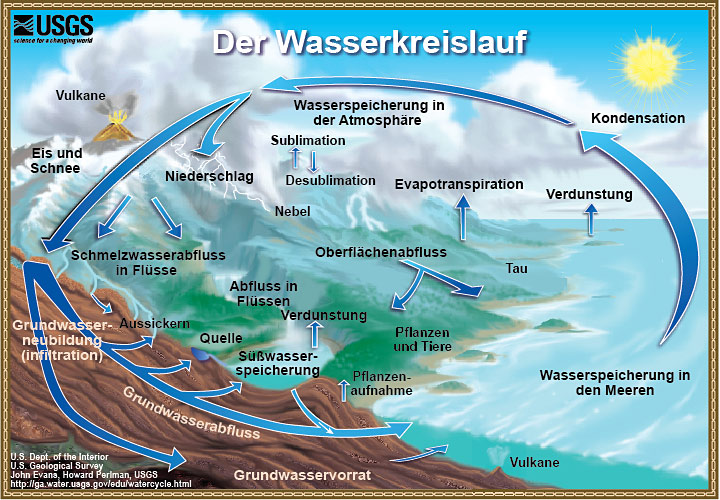 Water-Cycle Diagram (German)